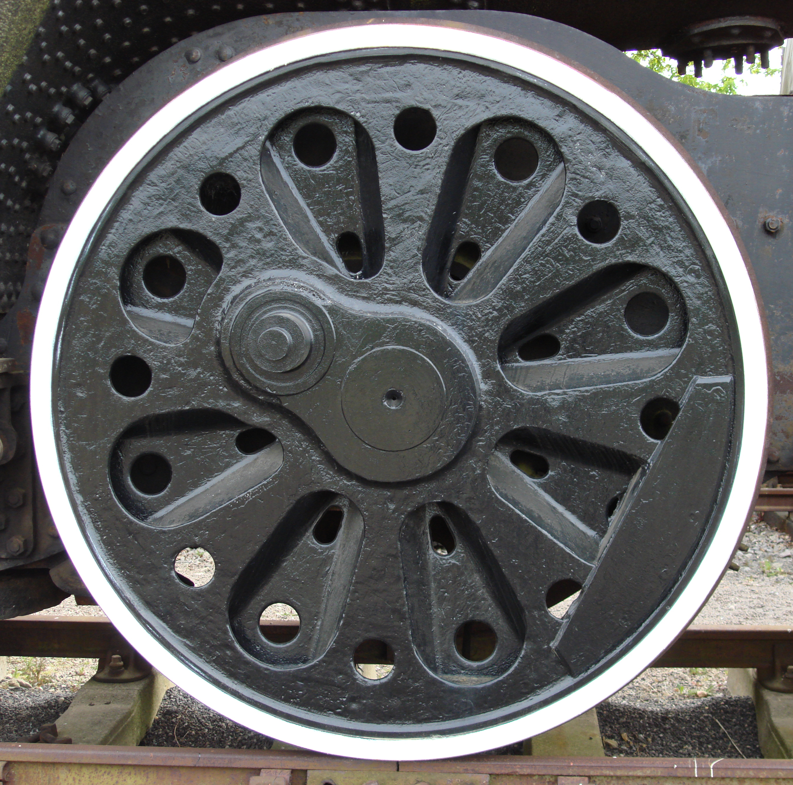 Bulleid Firth Brown (not a Boxpok) wheel from SR 4-6-2 Merchant Navy Class no. 35010 "Blue Star". on Static display awaiting restoration. at the Colne Valley Railway